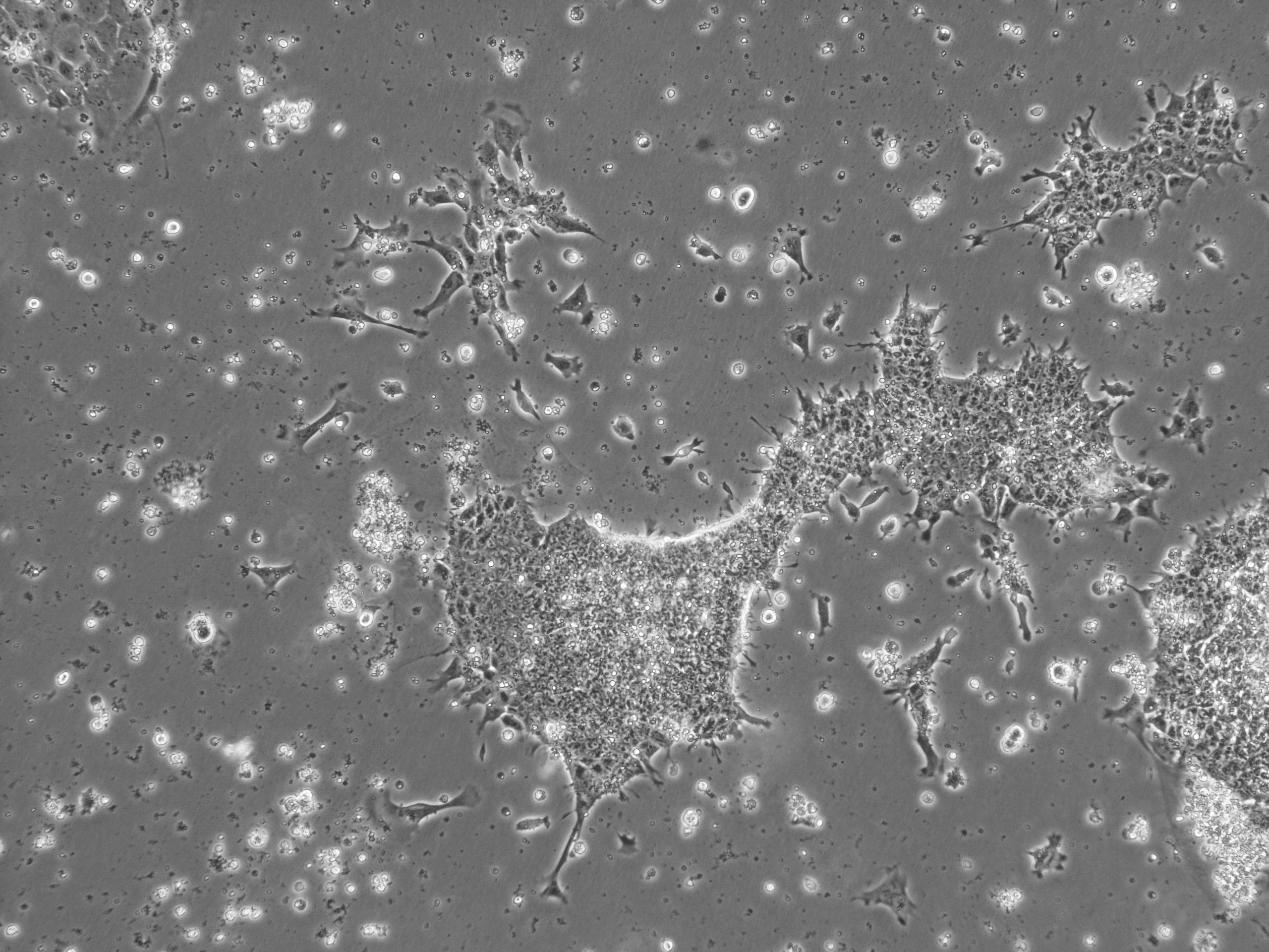 Embryonic stem cells of mouse are differentiating into neural stem cells. 100x.